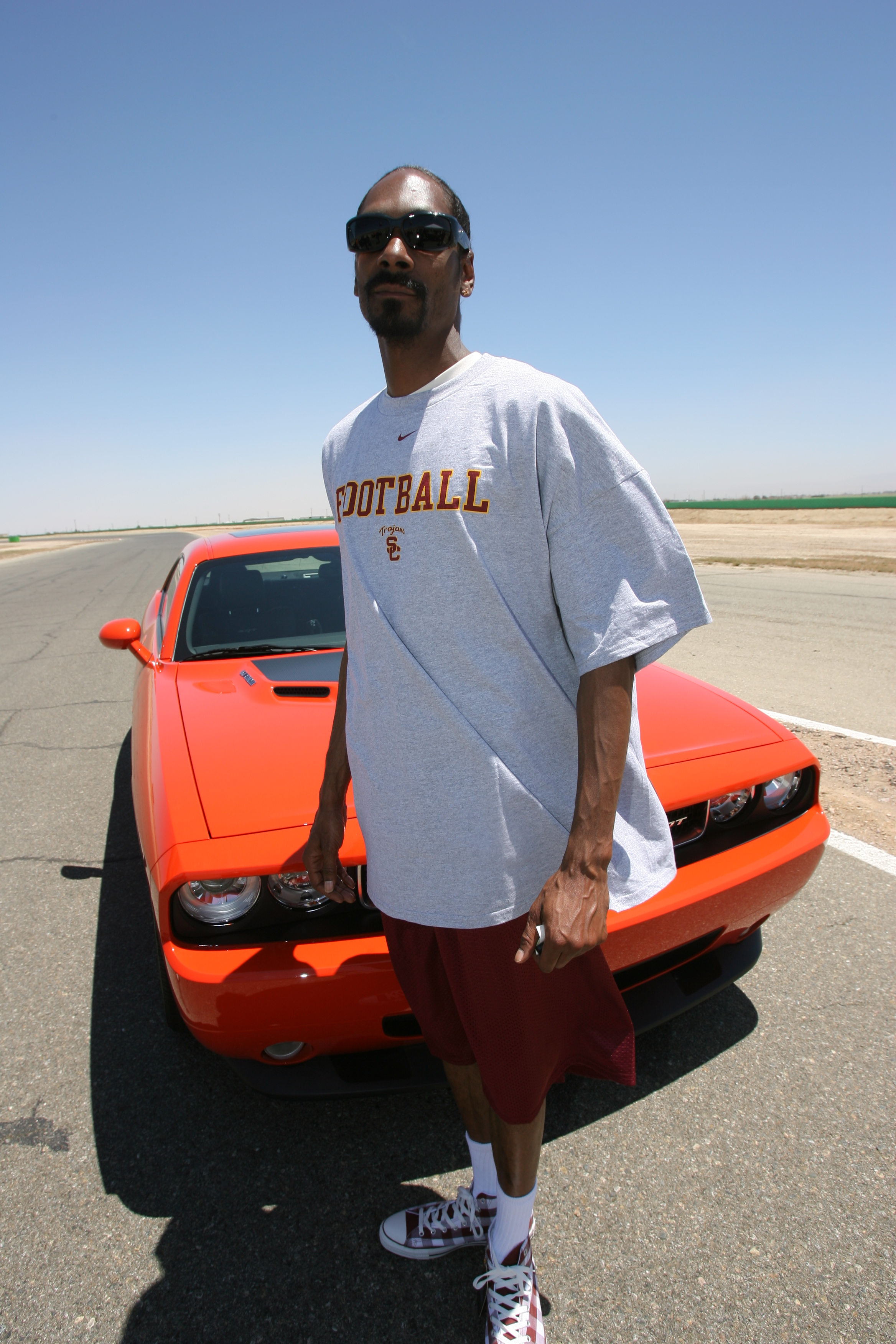 Snoop Dogg poses with a 2008 Dodge Challenger